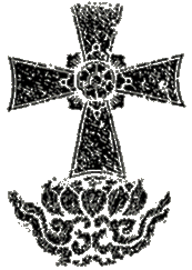 Bible Teachers' Training School for Women